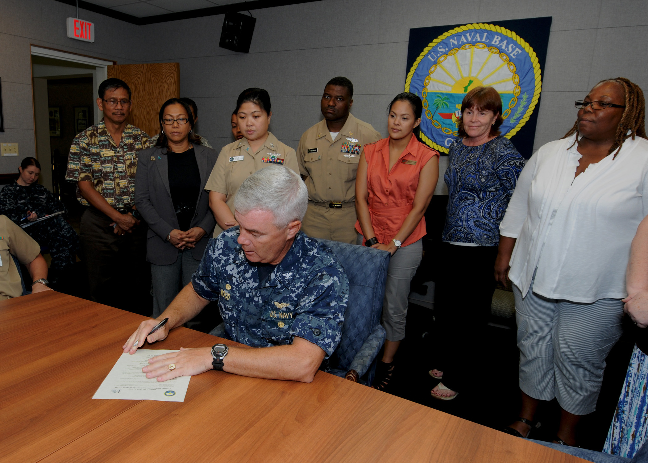 SANTA RITA, Guam (April 9, 2012) Capt. Richard Wood, commanding officer of U.S. Naval Base Guam, signs a proclamation in recognition of Sexual Assault Awareness Month, with the support of Sexual Assault Prevention and Response (SAPR) advocates from various commands and the Fleet and Family Support Center. (U.S. Navy photo by Mass Communication Specialist 3rd Class Corey Hensley/Released) 120409-N-UE250-004 Join the conversation navylive.dodlive.mil